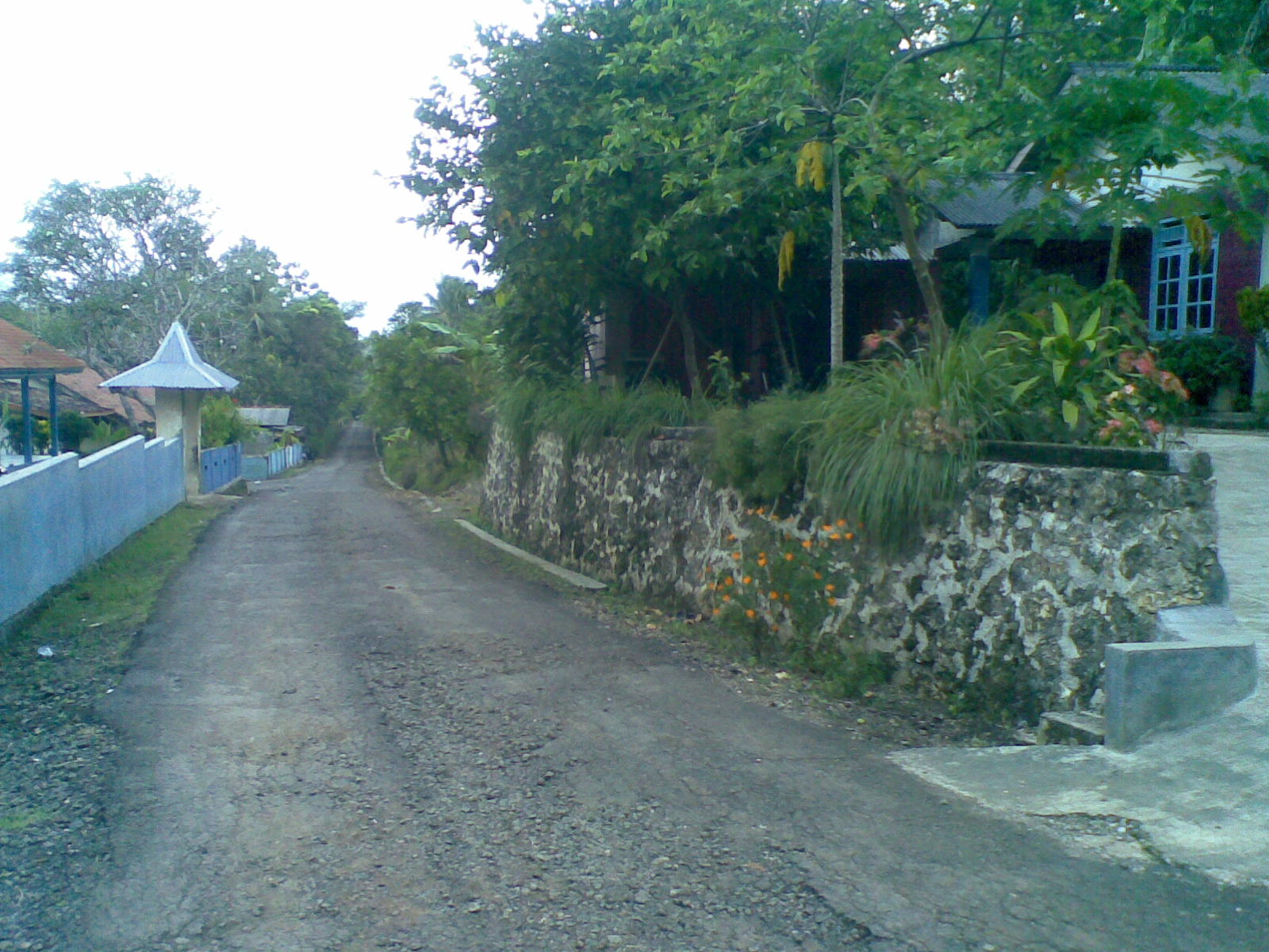 a village road in buniayu